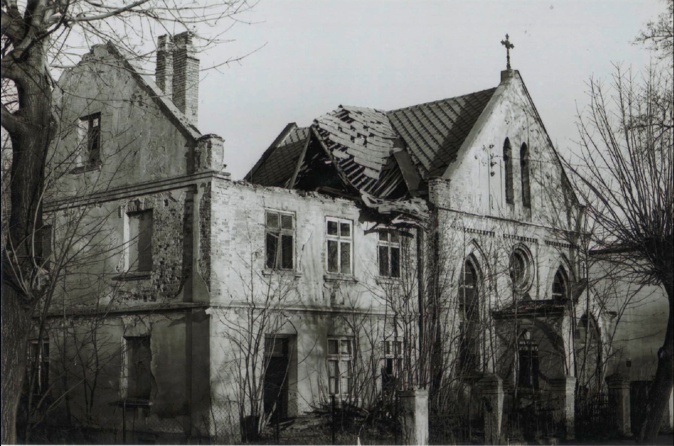 Lutheran Cantorate (elementary school and house of prayer) in Koźminek